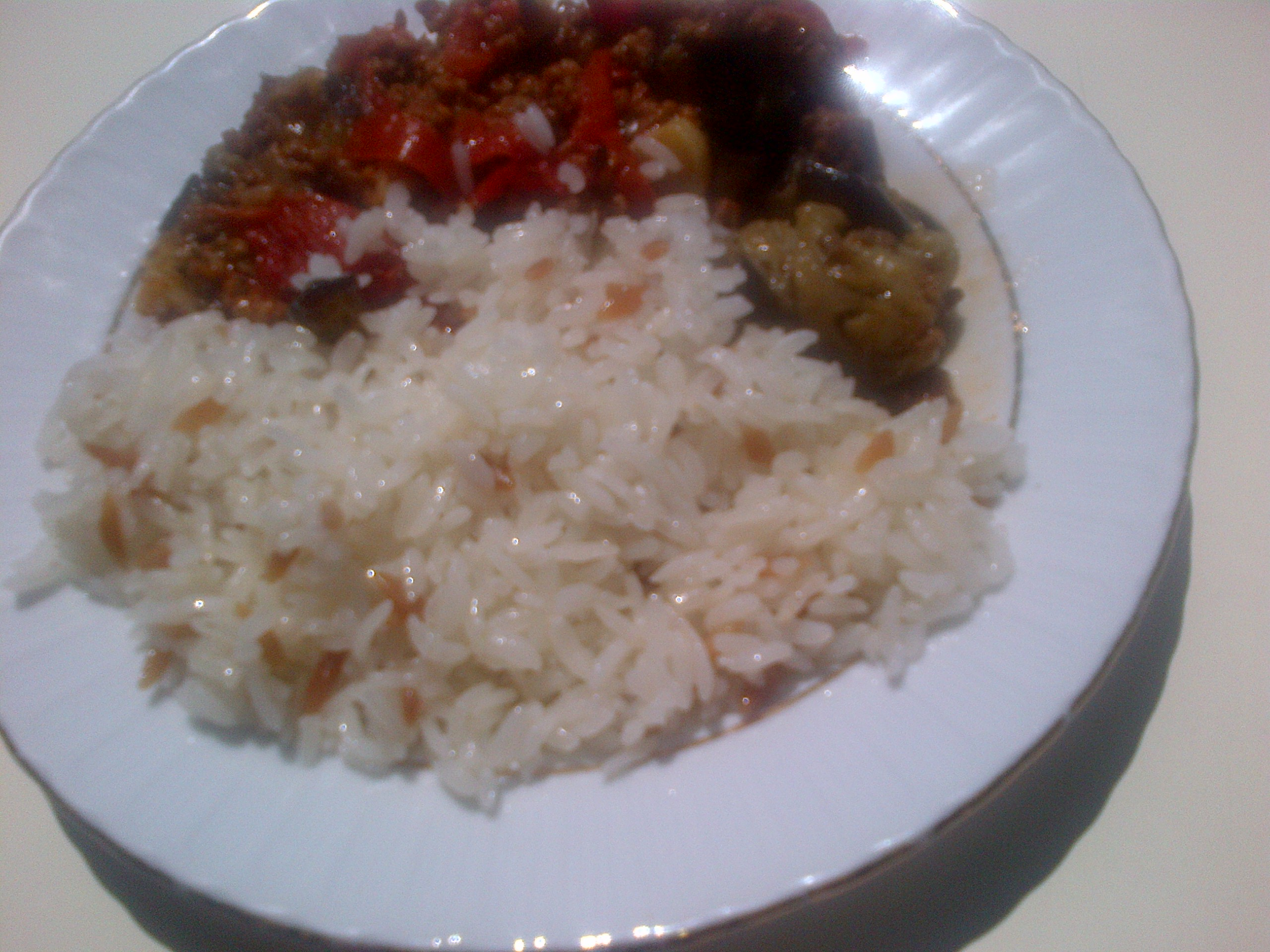 "Patlıcan musakka" (eggplant musakka) and "pilav" from Turkey. In the Turkish cuisine there are several "musakka" dishes, with patlıcan (eggplant) or other veggies.